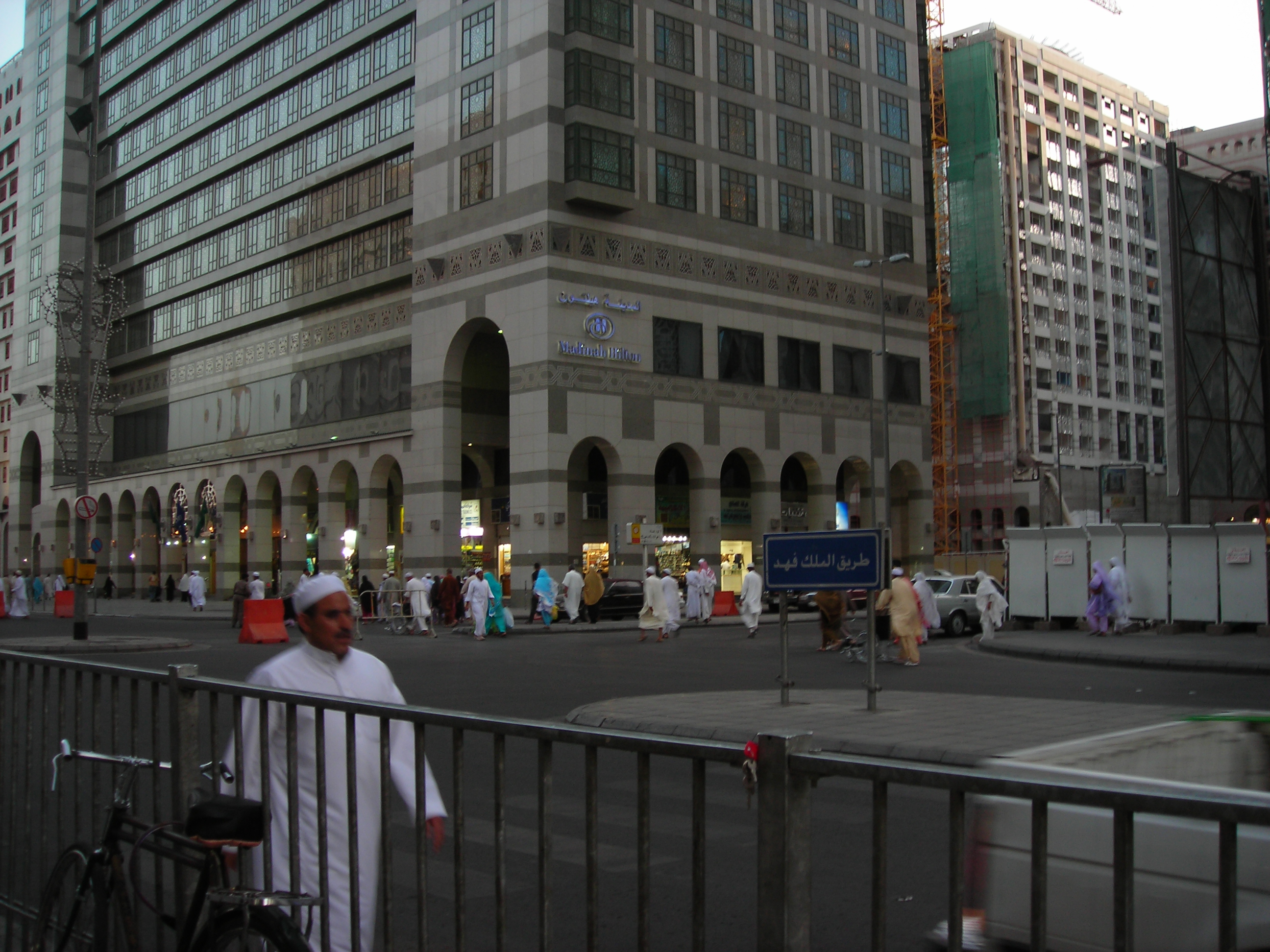 5 star hotel Madina Hilton along the road to main gate of Masjid Nabavi. More such hotels can be seen under costruction beside and opposite.